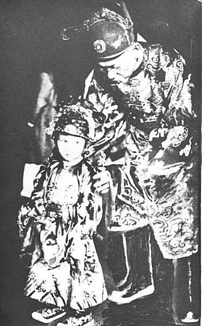 Crown Prince Bảo Long of Vietnam, the eldest son of Emperor Bảo Đại